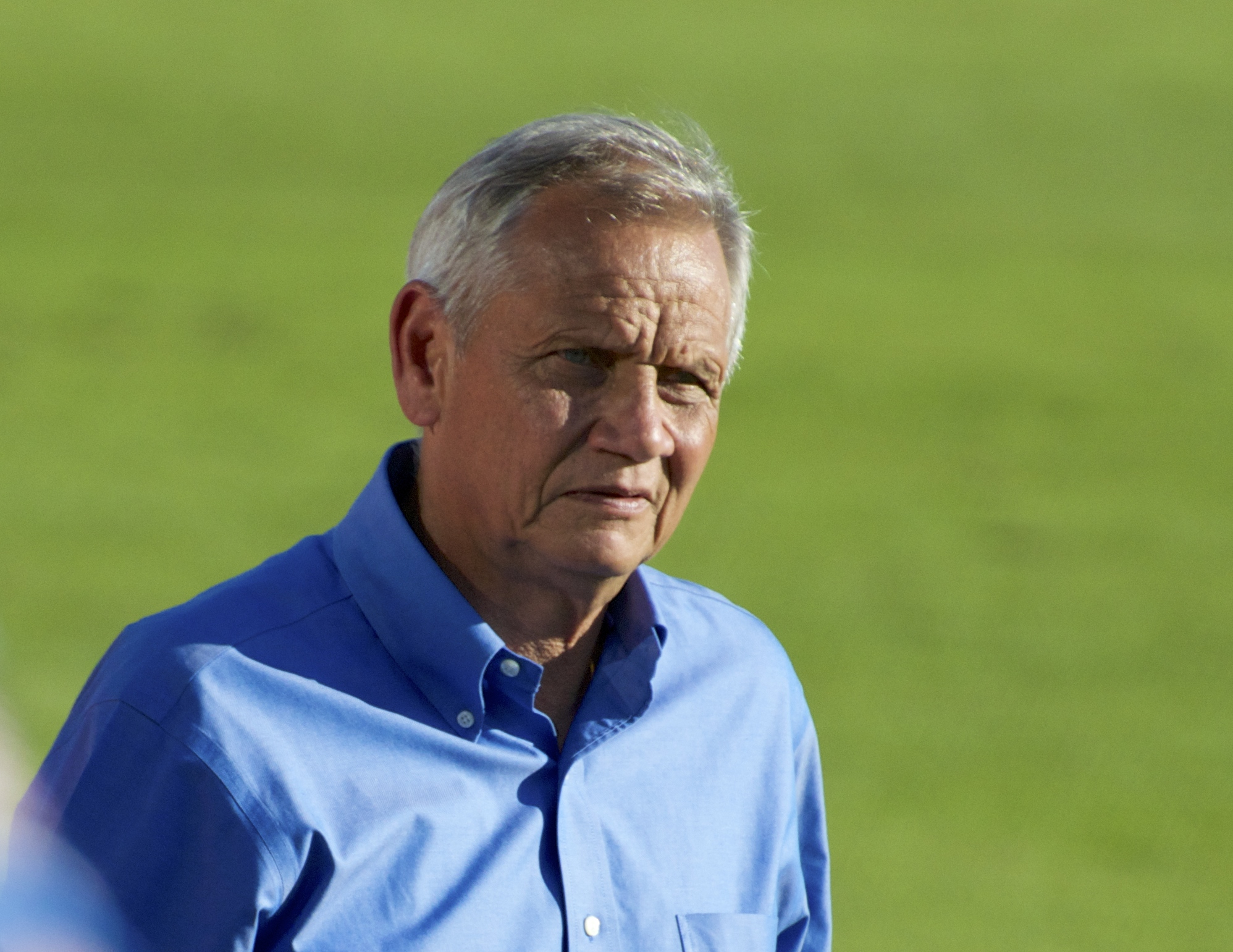 Schellas Hyndman, 26 Oct 2013, FC Dallas vs SJ Earthquakes, Buck Shaw Stadium